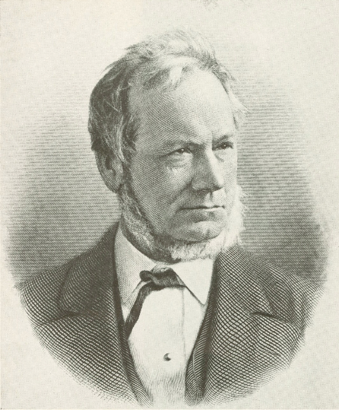 Early 20th century crosshatching of Railroad Executive Samuel Sloan